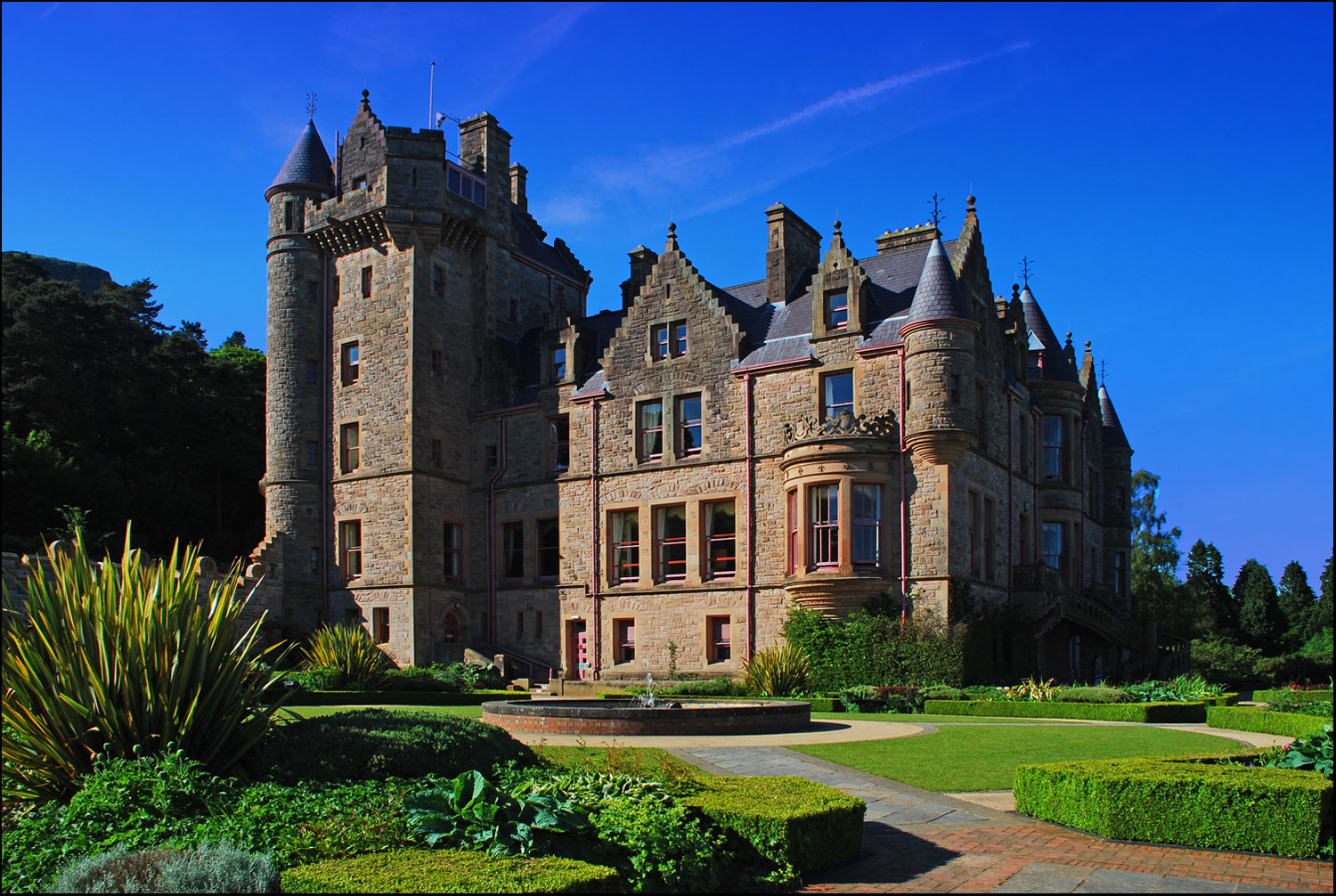 The stunning Belfast Castle taken from the gardens. A very photogenic building which can be hired out for various events.